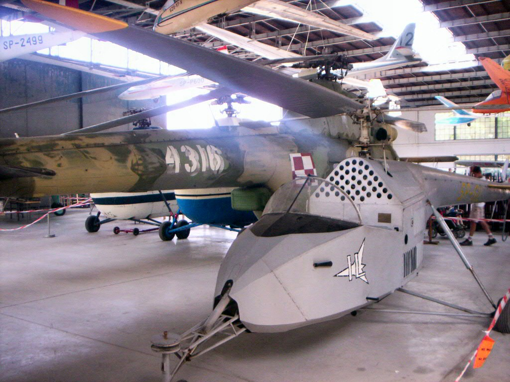 Polish experimental helicopter BŻ-1 Gil in Polish Aviation Museum in Kraków